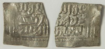 Silver coin of a wattasid sultan Abu Abd Allah Muhammad al-Burtughali